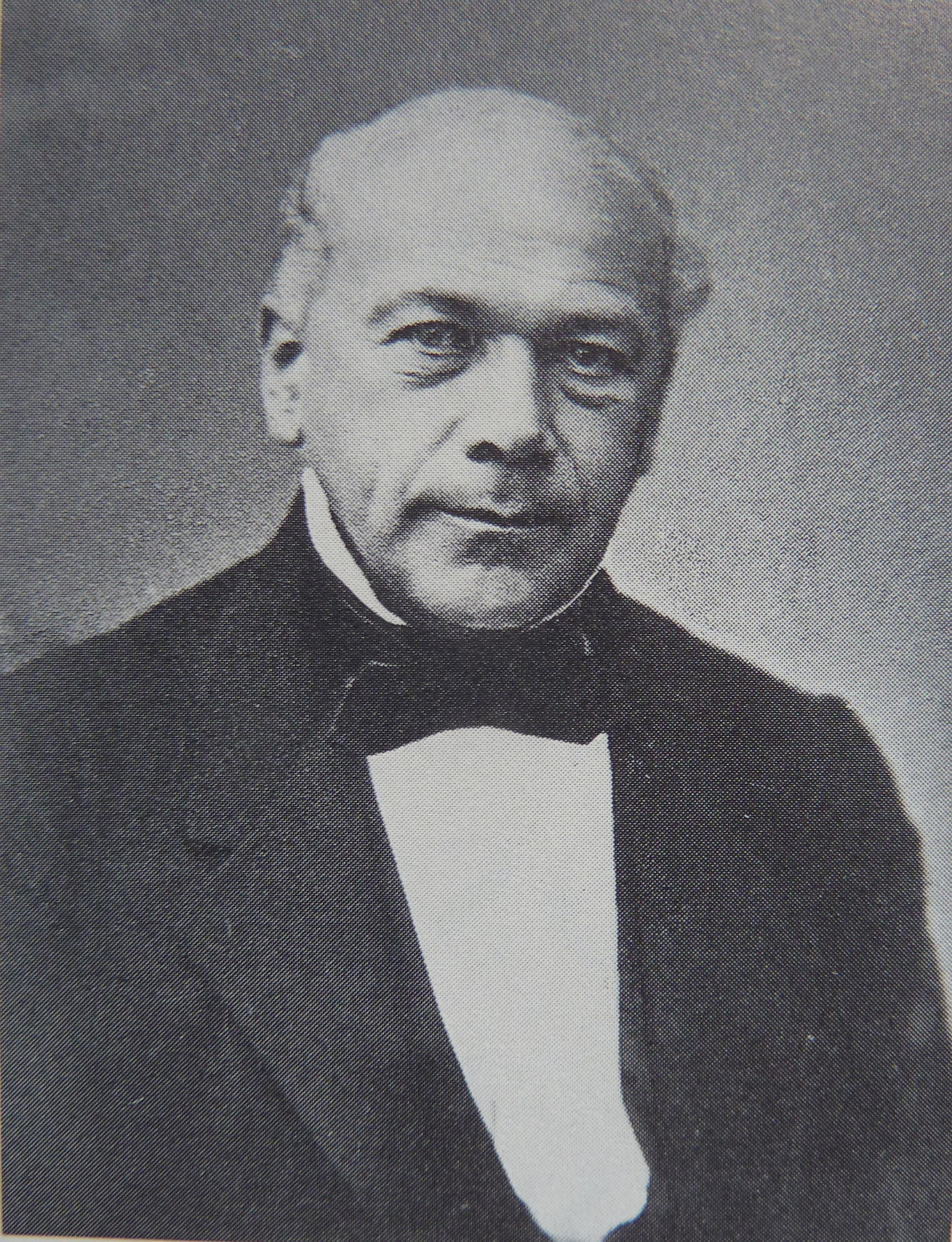 Johann Christian Konrad Hofmann, German protestant theologian